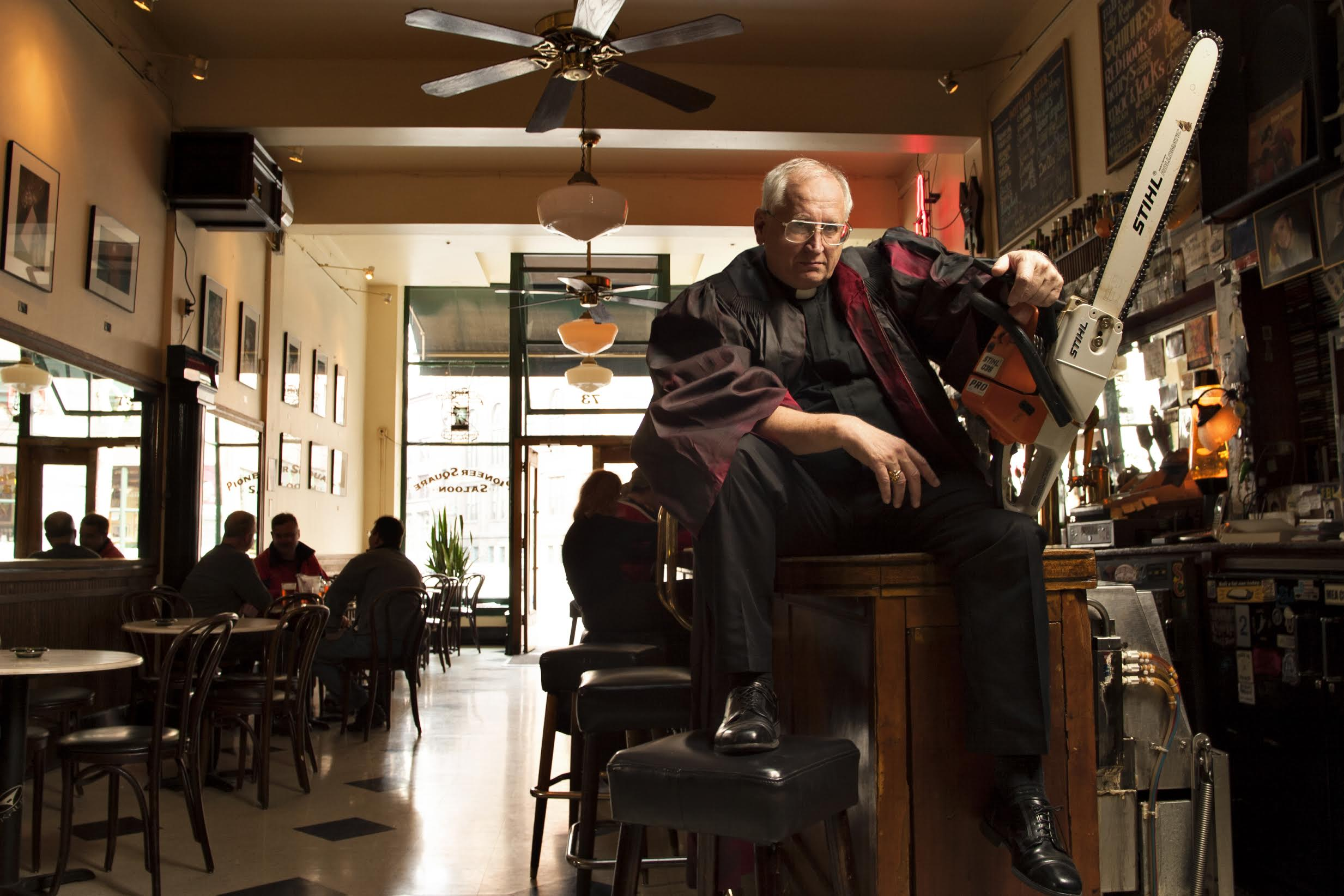 Image of Prohibition activist Gene Amondson